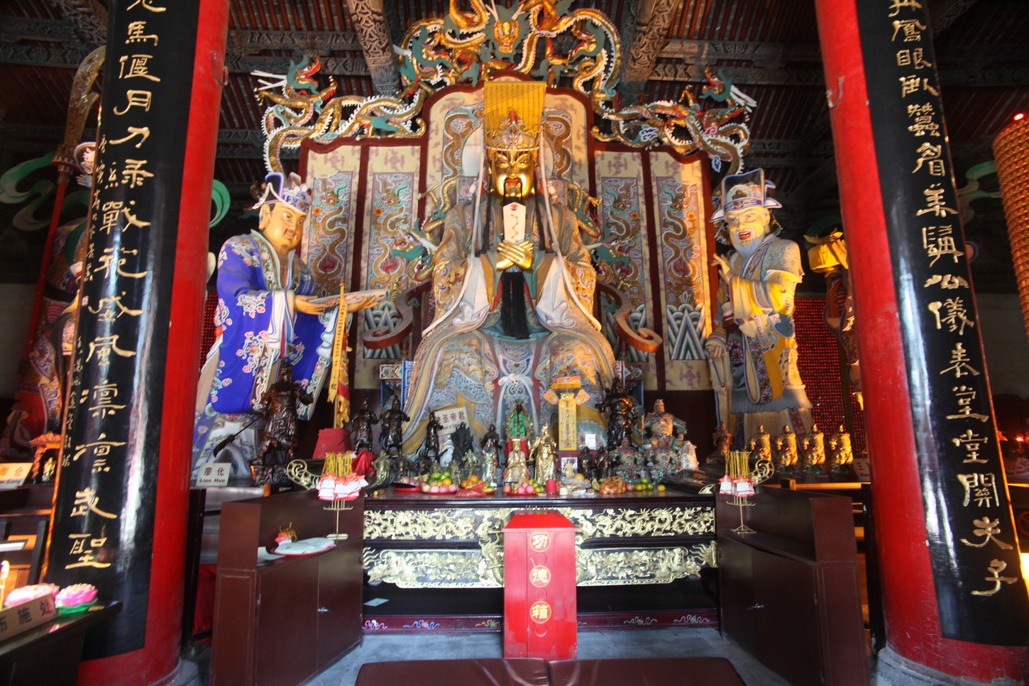 Statue of Guanyu in Guanlin Temple in Luoyang